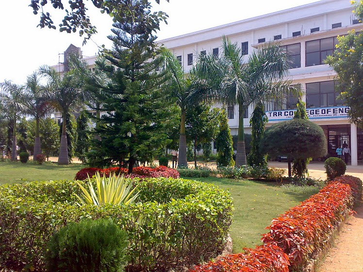 College north block entrance as viewed from garden.